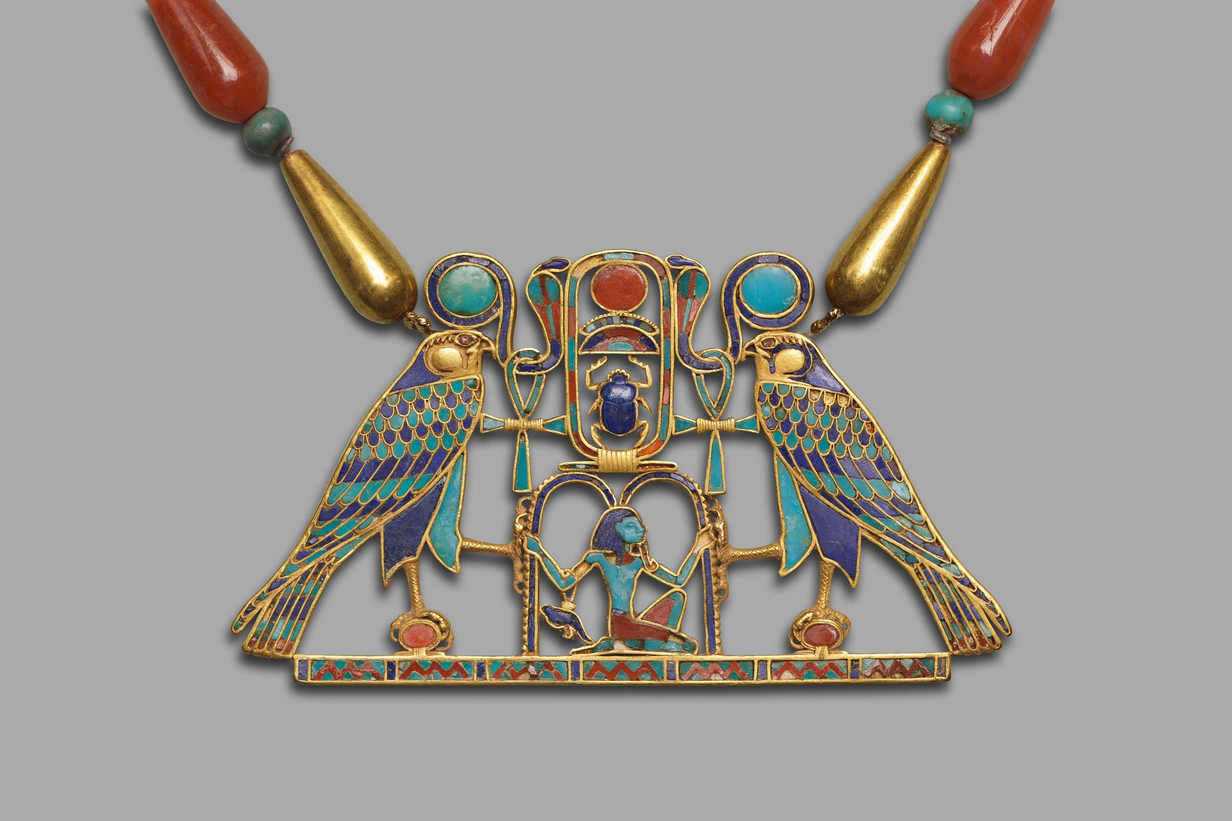 Necklace, pectoral, Sithathoryunet, Senwosret II